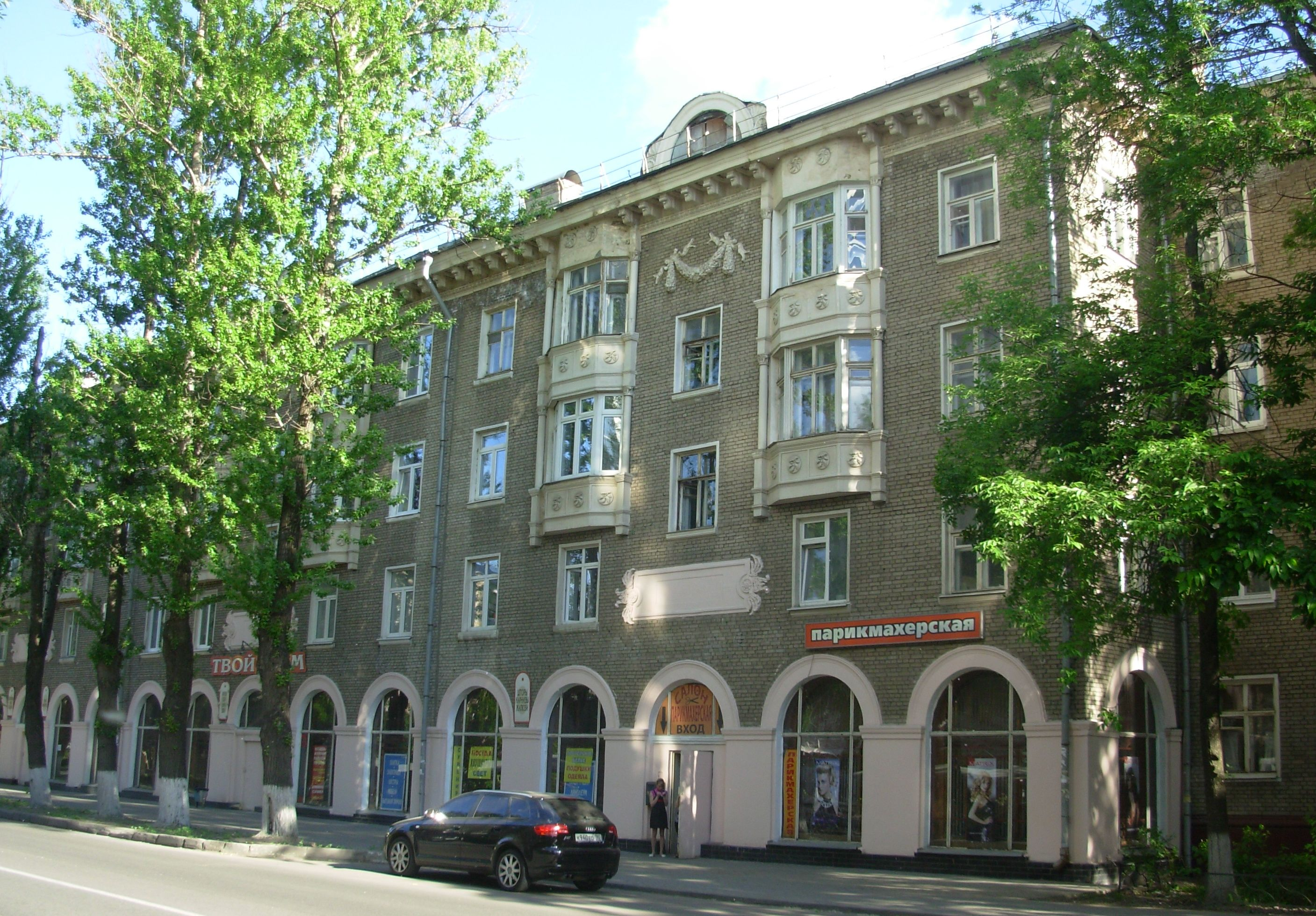 street